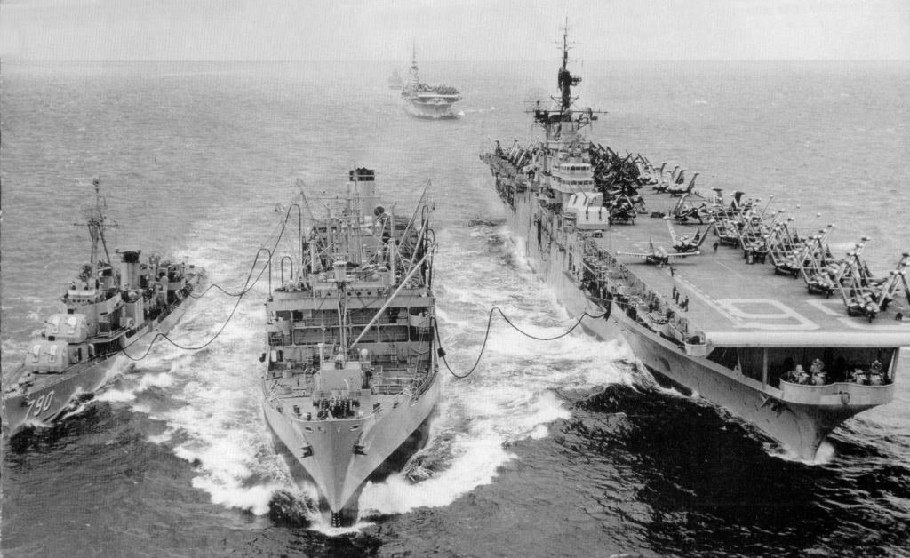 Task Force 77 during the Korean War: The U.S. aircraft carrier USS Antietam (CV-36) and the destroyer USS Shelton (DD-790) being refueled from the fleet oiler USS Tolovana (AO-64) in 1951-52. Many planes of Carrier Air Group 15 (CVG-15) are visible on Antietam´s deck. The carrier USS Essex (CV-9) is visible in the background.